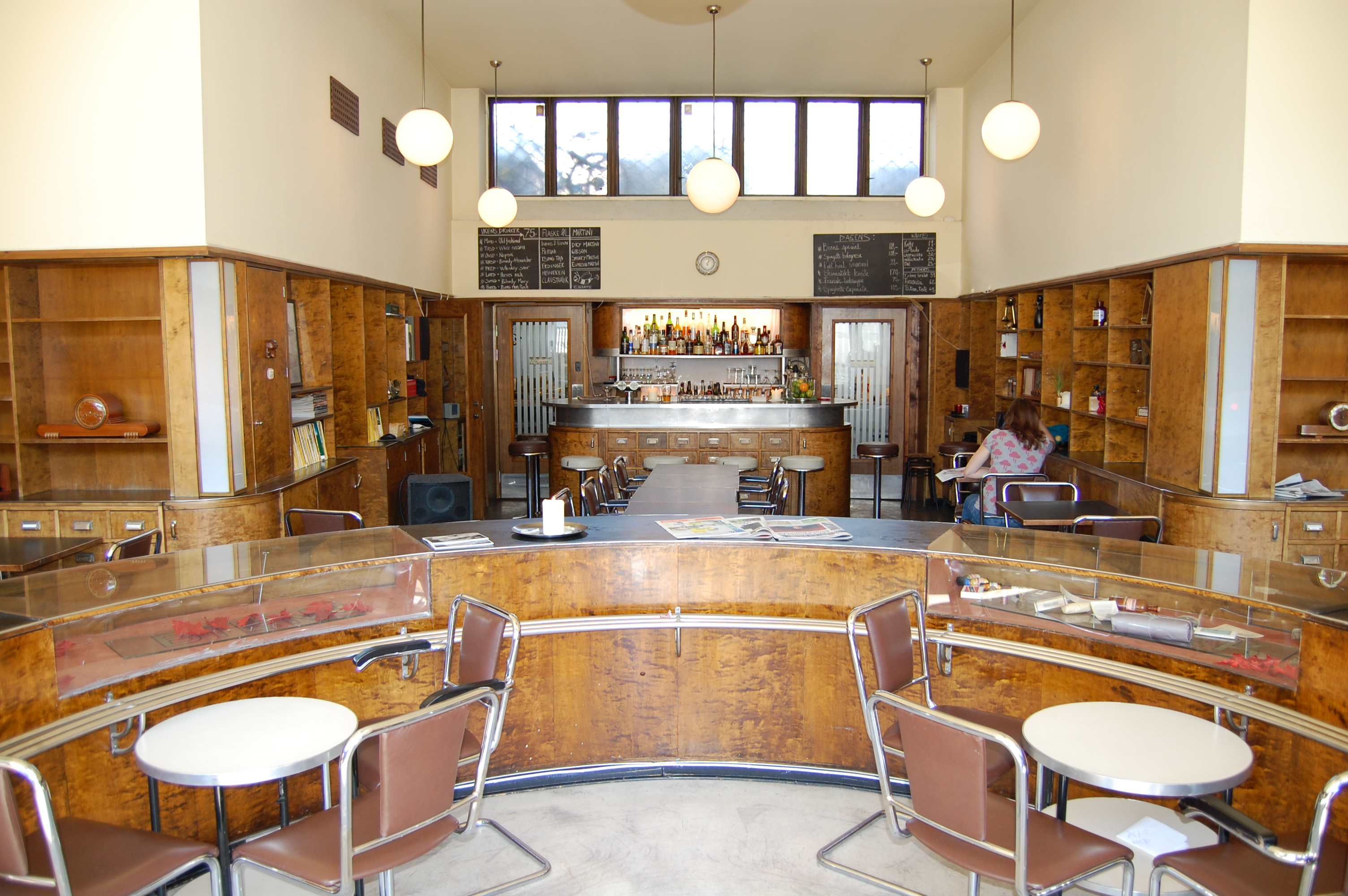 Bien bar, Bergen, Norway.